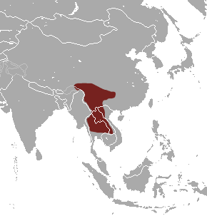 Voracious Shrew (Crocidura vorax) range